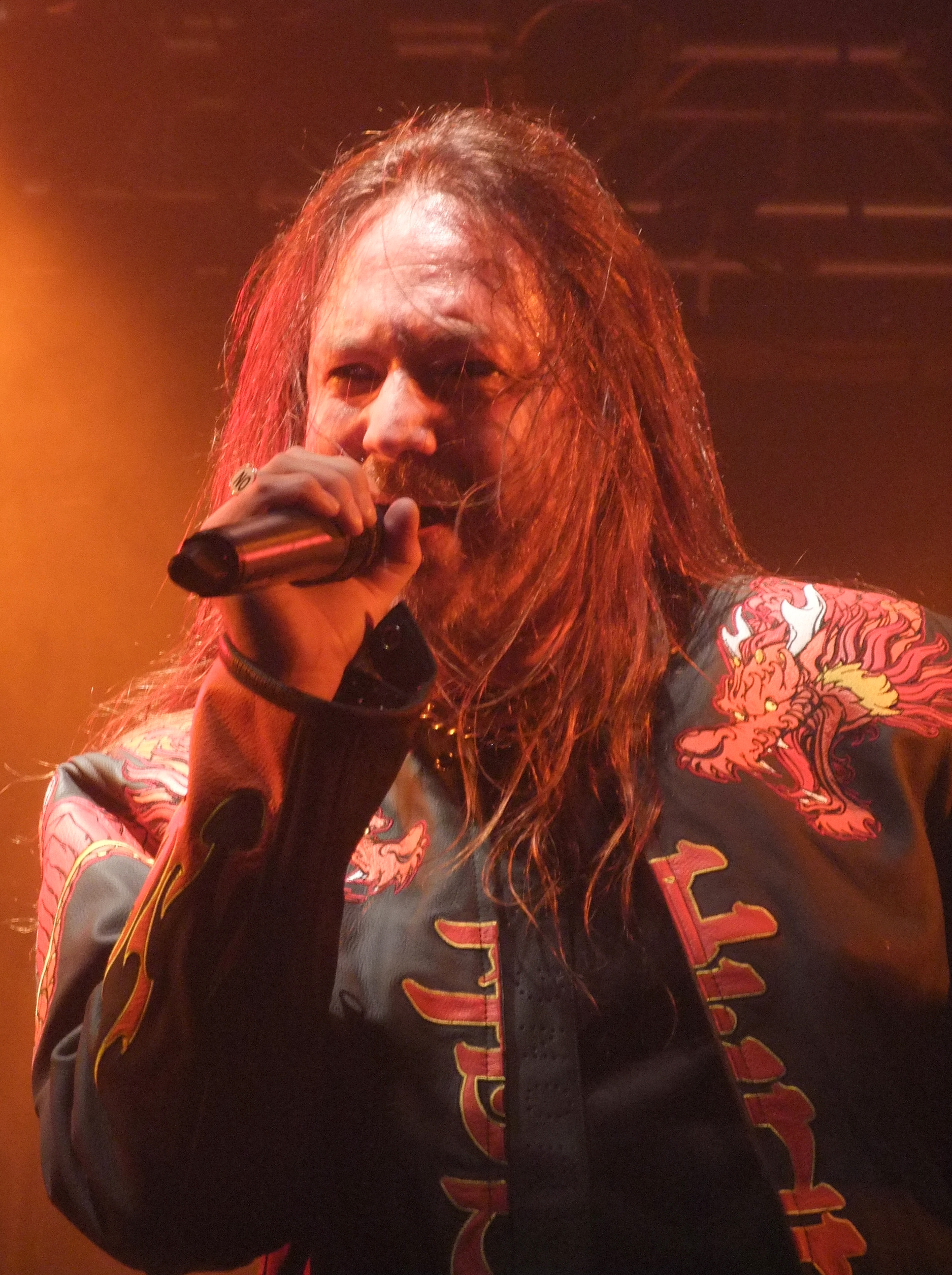 Joacim Cans performing with Hammerfall at The Electric Ballroom in London, 6th May 2010